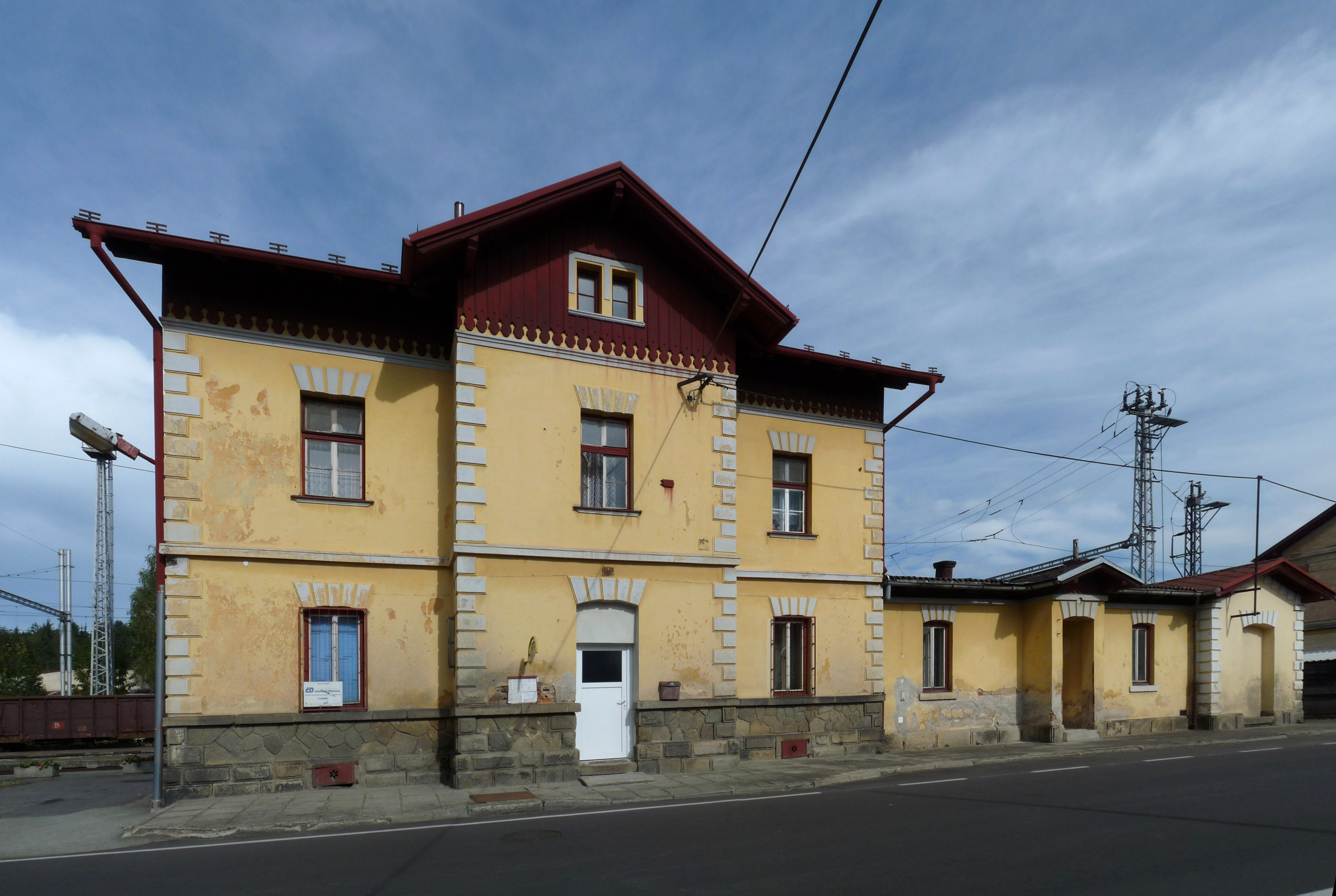 Railway station building in the village of Kaplice-nádraží, part of Střítež, a municipality in Český Krumlov District, South Bohemian Region, Czech Republic.